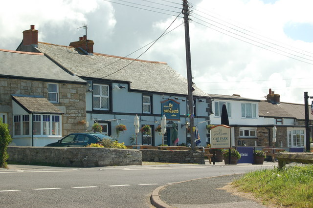 The Lion & Lamb pub, Ashton The Lion & Lamb's exterior has been given a facelift within the past year. The food is still of the same excellent quality though !!